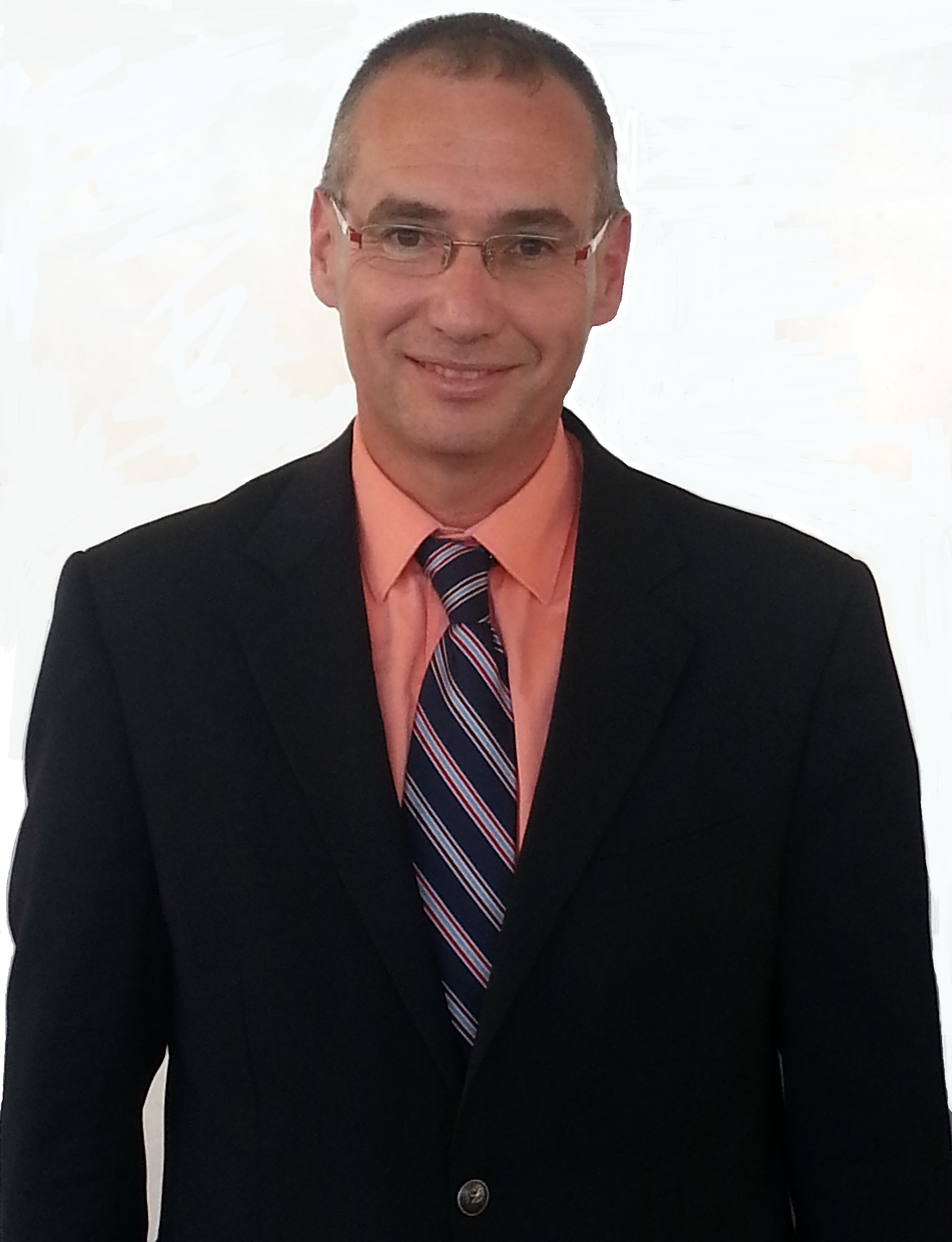 Arnon Afek at the graduation ceremony of Class of 2014 of the New-York State Medical Program, at Sackler school of Medicine, Tel-Aviv University, 21/05/2014